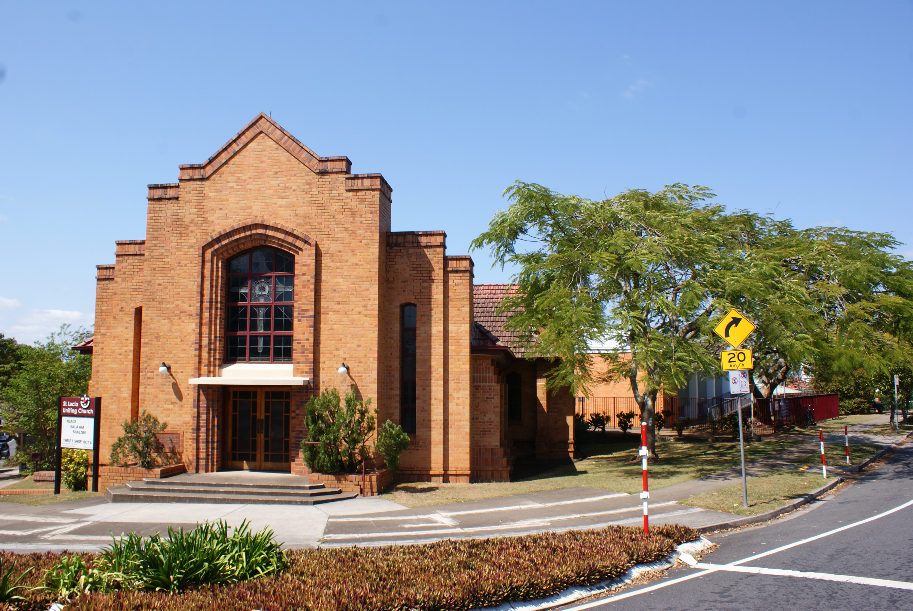 Photo of the elevation of the Presbyterian Church in St Lucia on Hawken Drive.